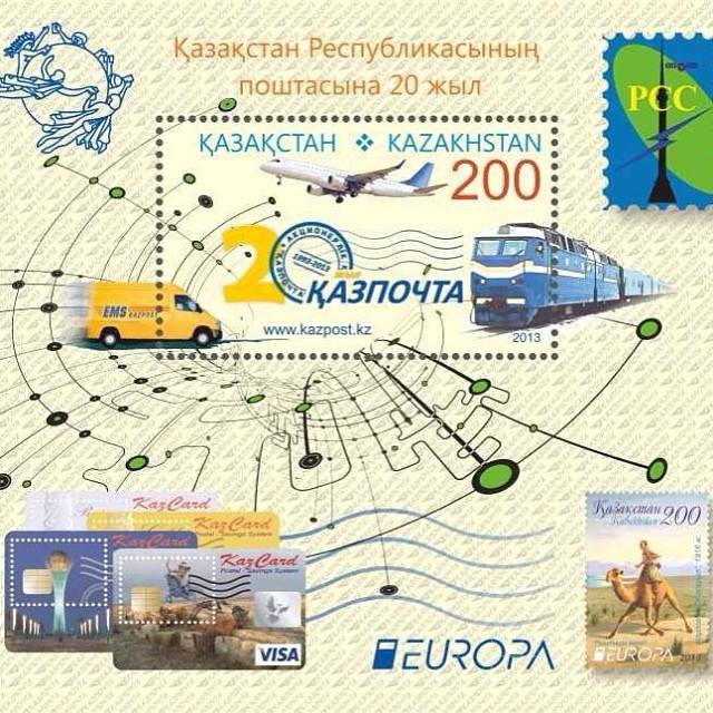 Stamp of Kazakhstan dedicated to 20 years of Kazpost